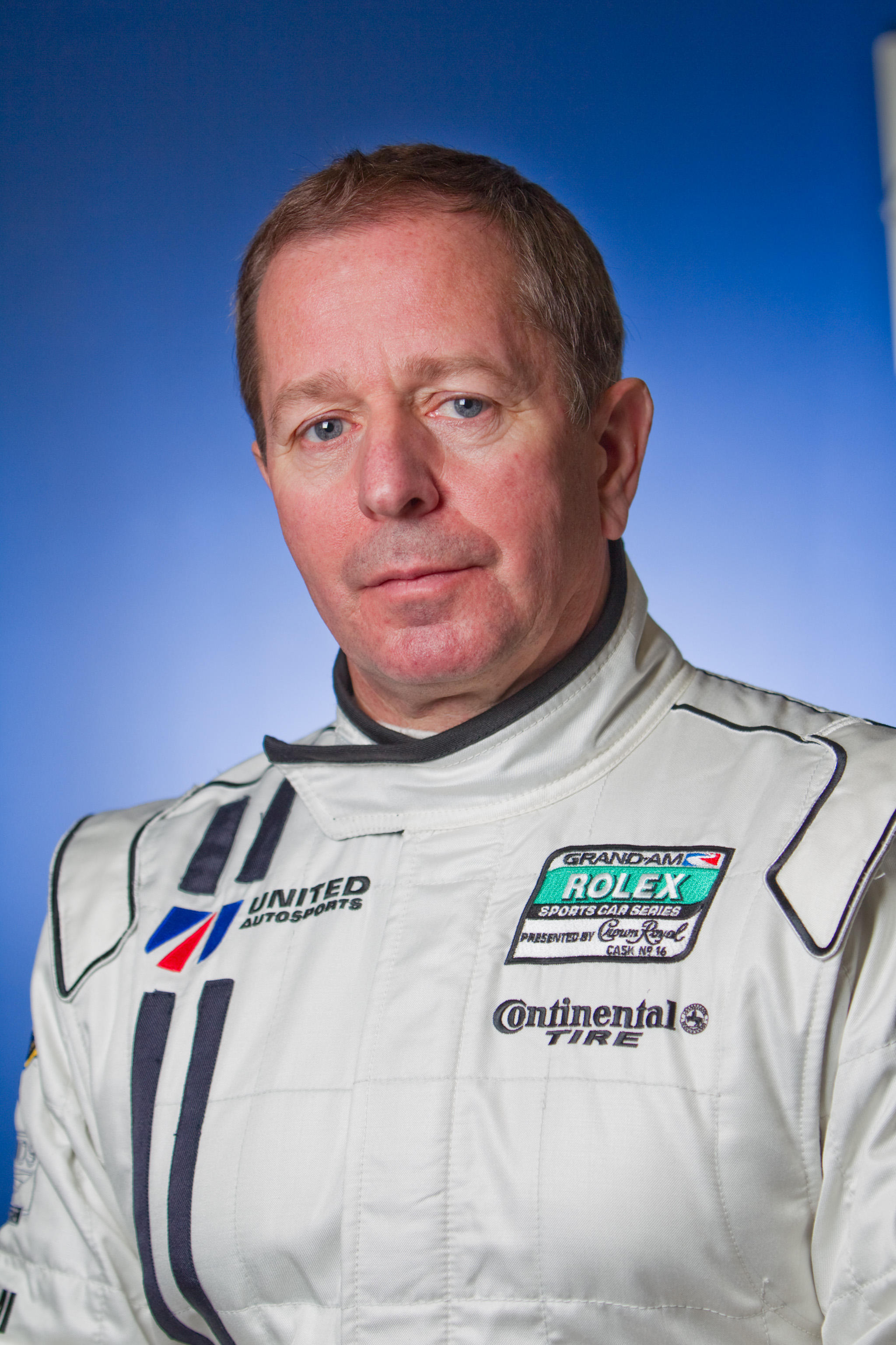 Martin Brundle in a portrait before the 2011 Rolex Series Test at Daytona International Speedway